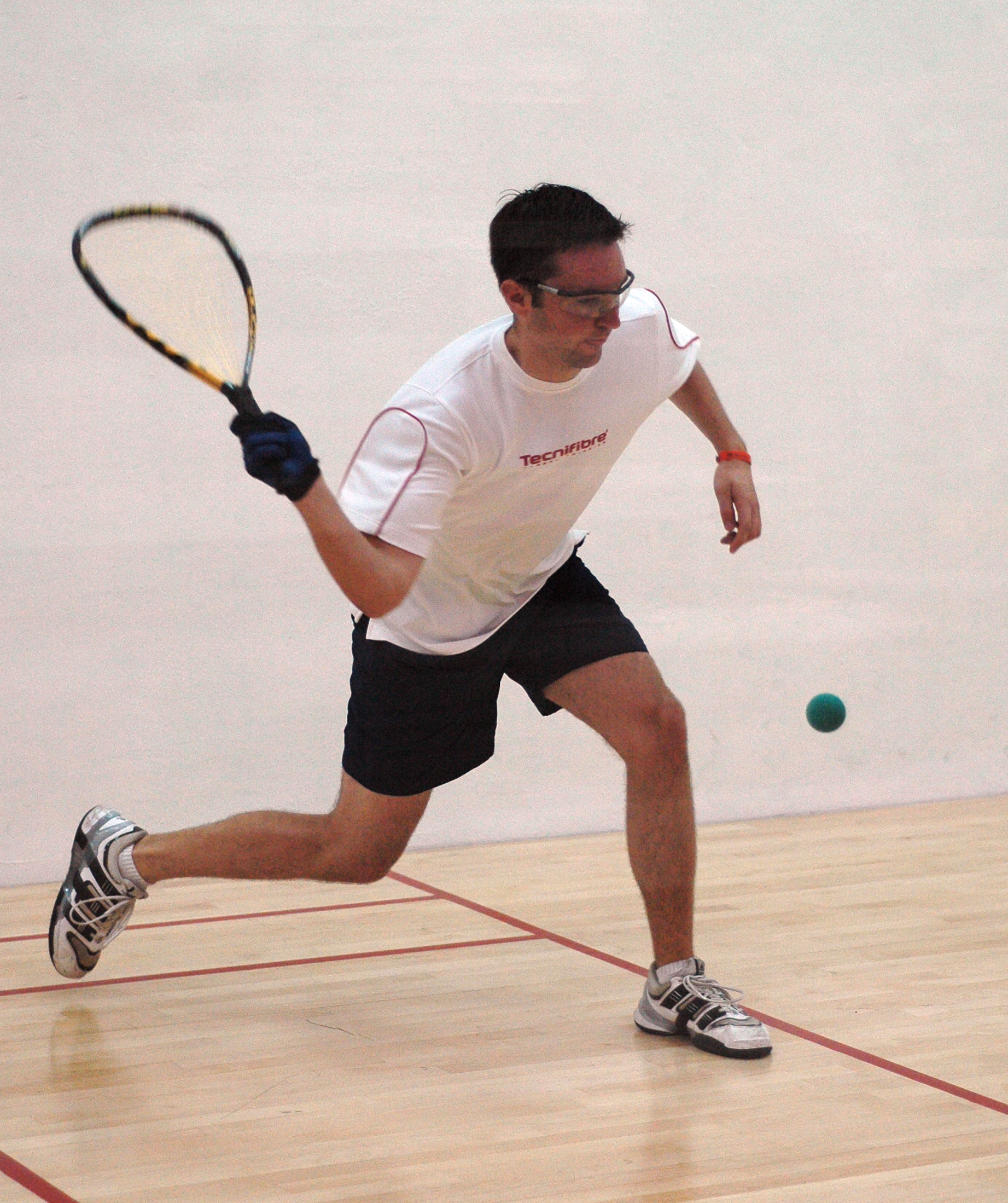 Kris Odegard at 2006 IRF World Racquetball Championships in Santo Domingo, Dominican Republic